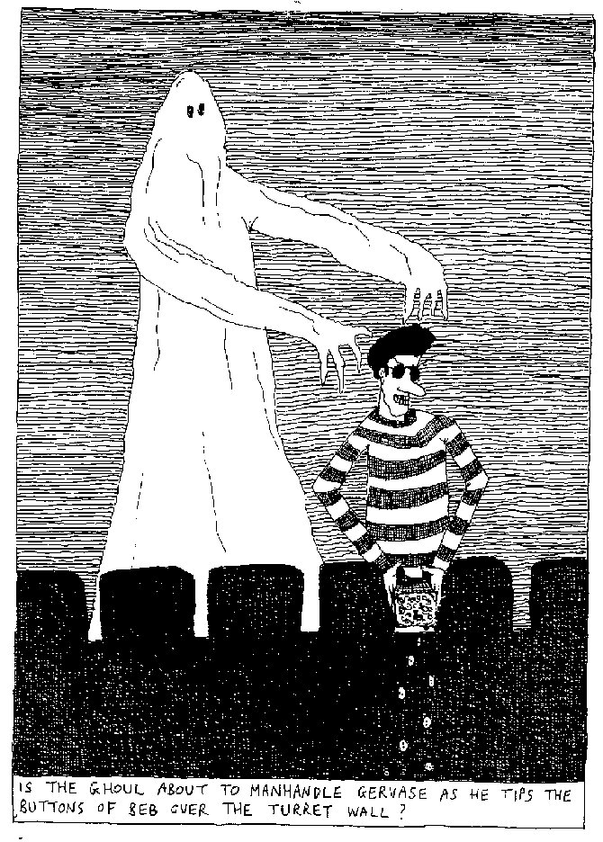 An image from the 1994 Hooting Yard Calendar. The caption reads "IS THE GHOUL ABOUT TO MANHANDLE GERVASE AS HE TIPS THE BUTTONS OF BEB OVER THE TURRENT WALL ?"